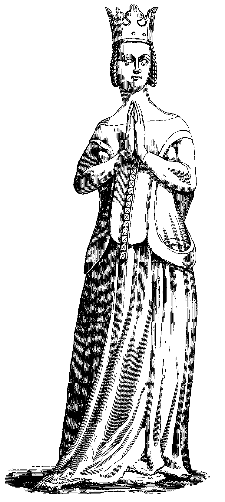 Jeanne de Bourbon, wife of Charles V of France, from a statue formerly in the Church of the Célestins, Paris.